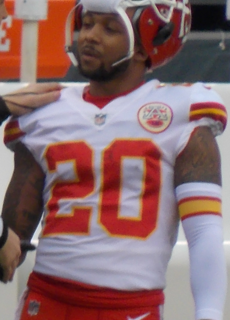 CB Darrelle Revis in his first game with the Kansas City Chiefs at Metlife Stadium against the New York Jets on December 3rd, 2017